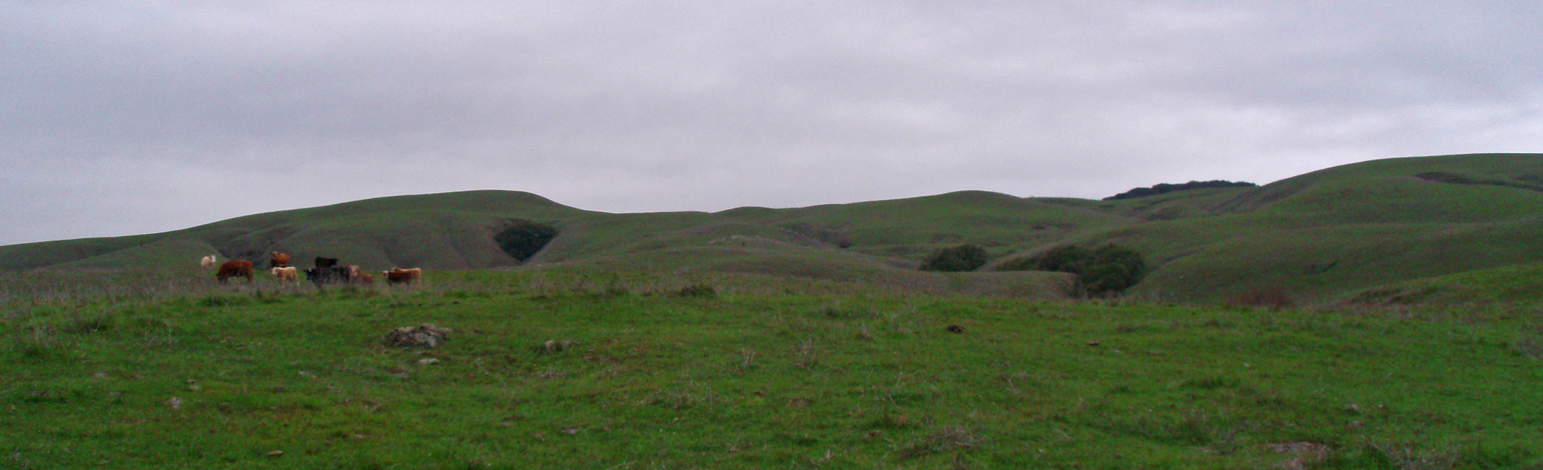 photographer:self